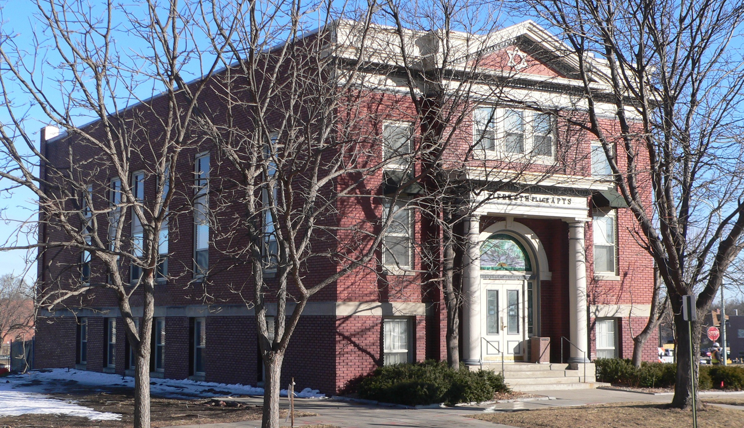 Tifereth Place Apartments, located at 344 S. 18th Street in Lincoln, Nebraska; seen from the northwest, across 18th.